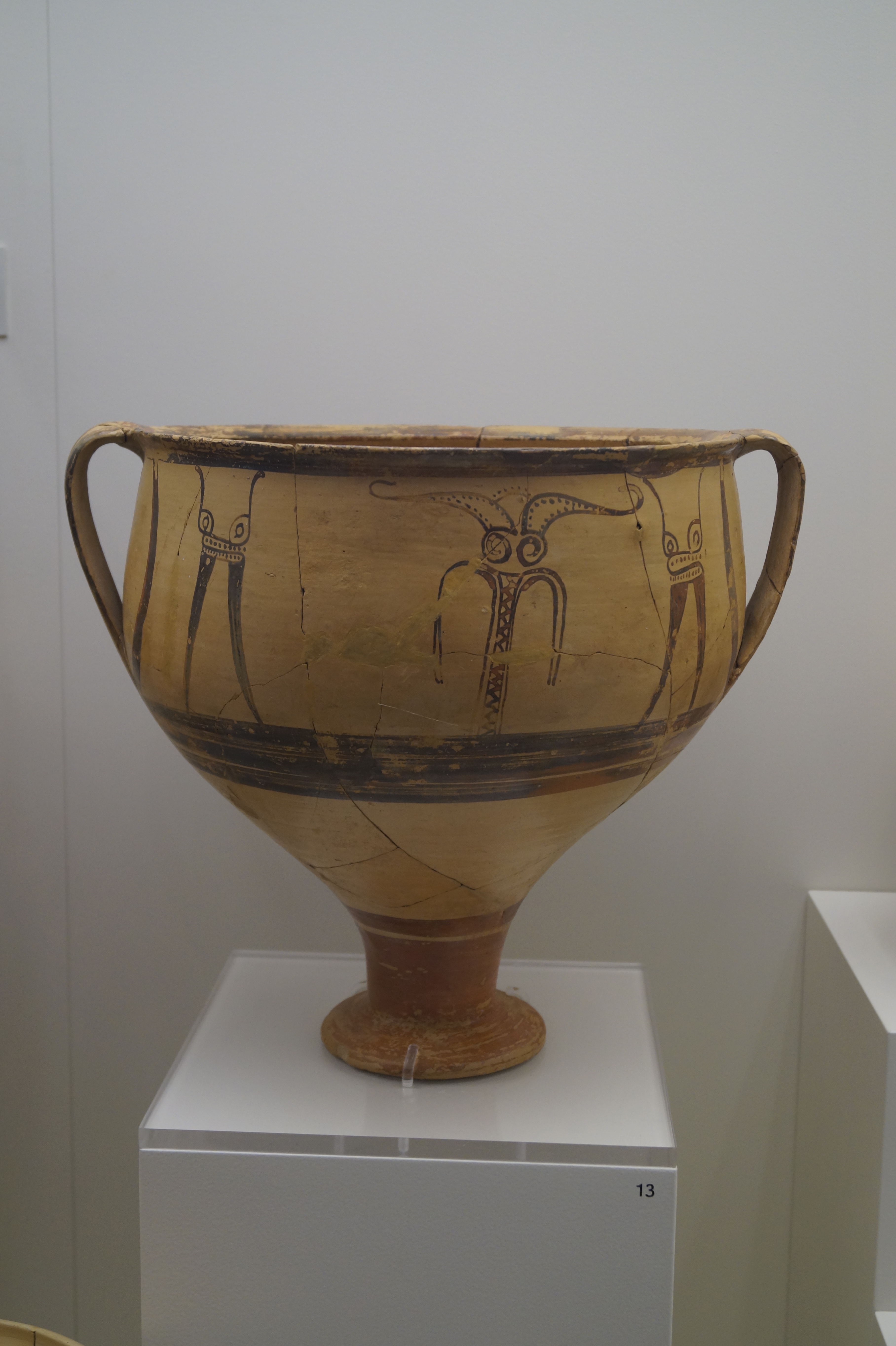 Salamis (City), Salamis, Greece: Archaeological Museum: Late helladic krater decorated with flowers and murex shells from the chamber tombs of Chalioti. (LH III A1-B1: 14th - 13th century BC)